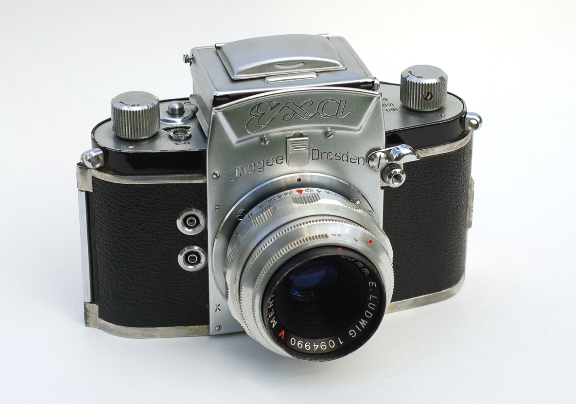 Made in Germany by Ihagee Kamerawerk, the Exa is a 35mm SLR with a waist-level viewfinder, produced from 1951 to 1962. This example was made sometime between April of 1956 and May of 1959.